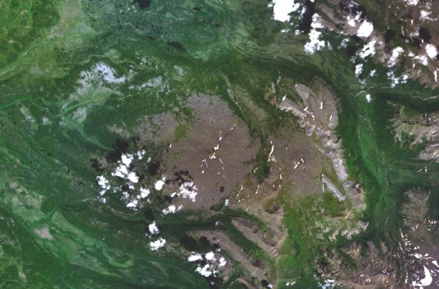 Voyampolsky (center) and Kakhtana (right-center) are two Icelandic-type shield volcanoes that form the NW-most volcanoes of the Sredinny Range, which stretches across the western side of Kamchatka.